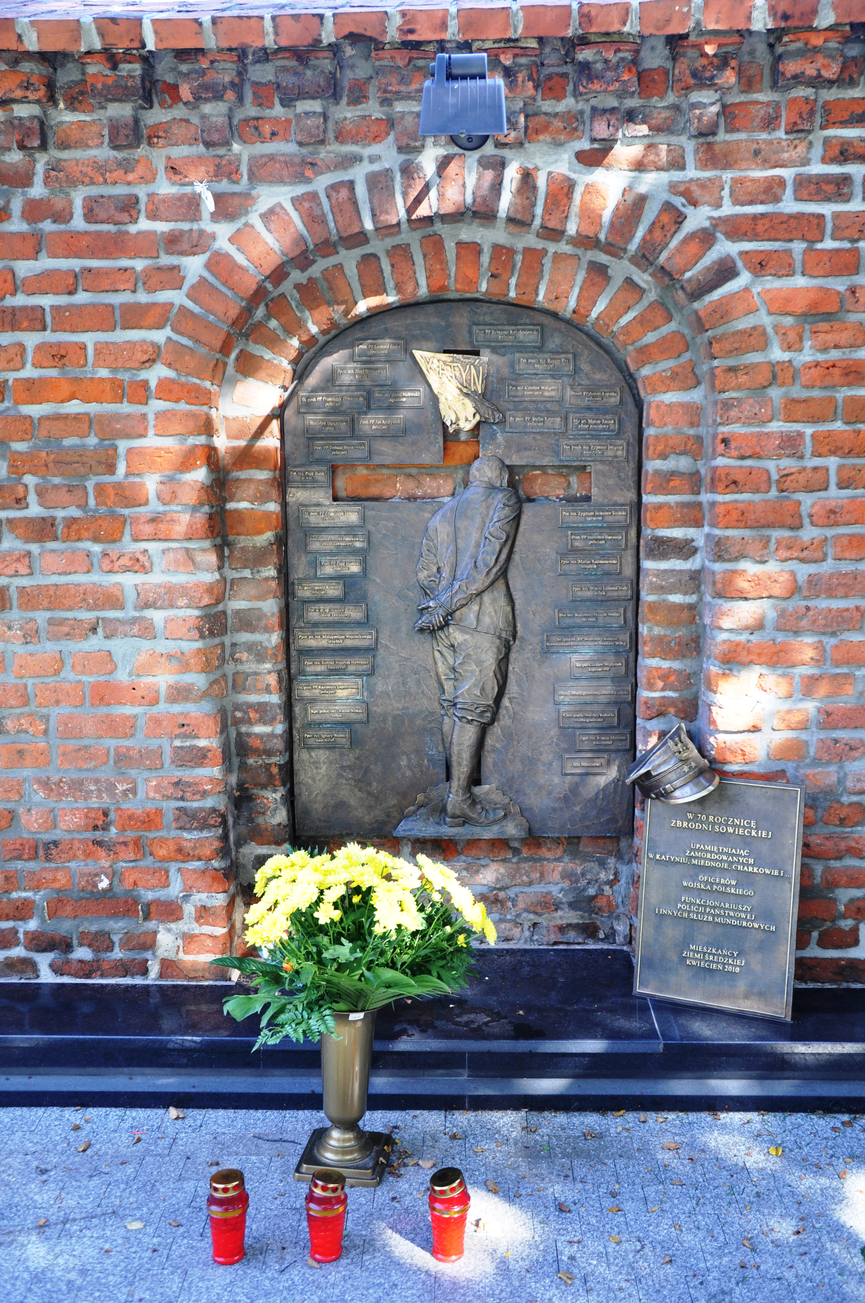 Katyn memorial Sroda at church